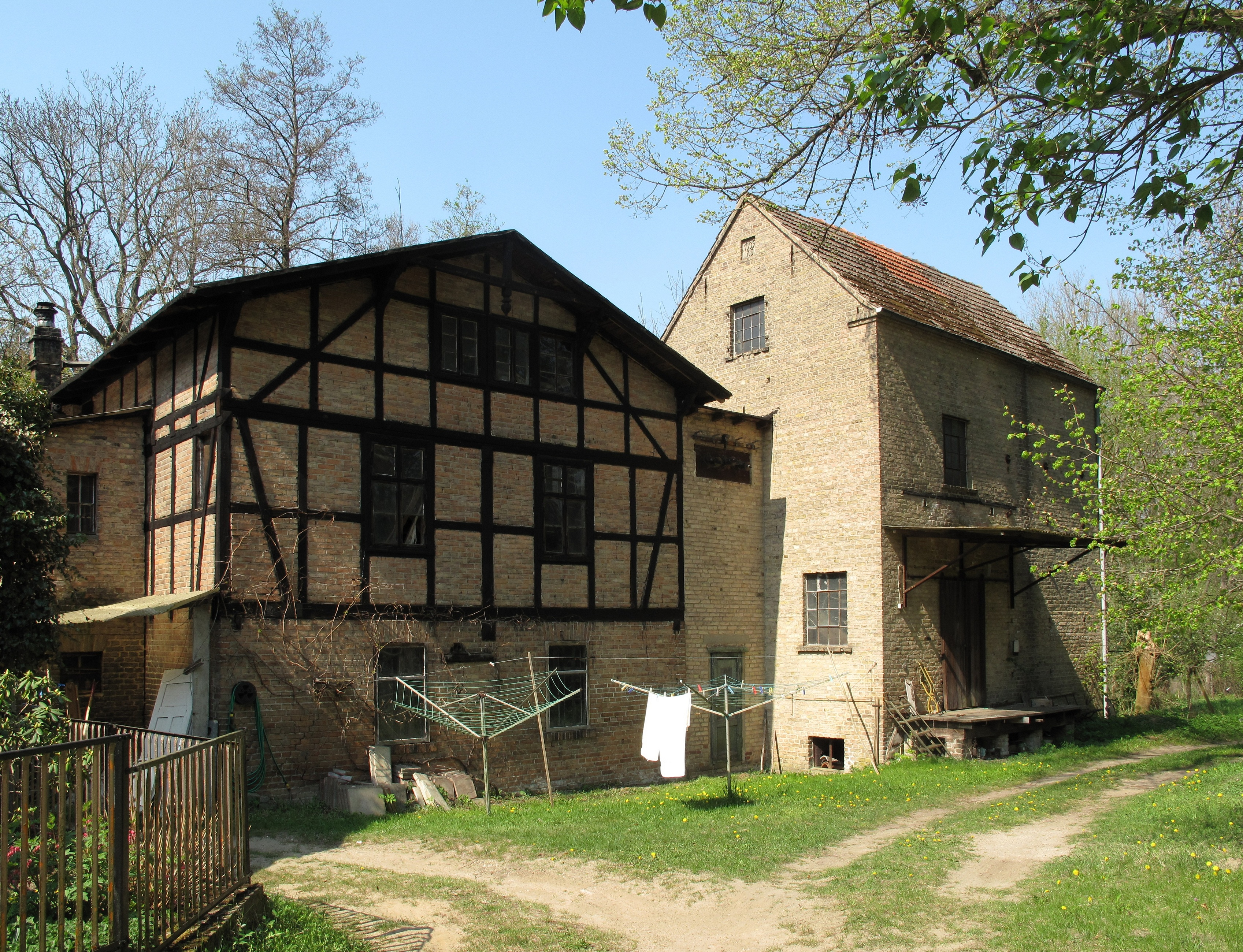 Former Seifertsche Mühle (water mill; today workshop) at the Stobber between Waldsieversdorf and Buckow. The Stobber (also called Stöbber) is the central river in the hill country „Märkische Schweiz“ and the Märkische Schweiz Nature Park, Brandenburg, Germany. The stream runs over a distance of 25 kilometers from the lowland moor and source area Rotes Luch towards the northeast through Buckow to the Oderbruch. The Stobber flows at Neuhardenberg to the „Friedländer Strom“, whose waters run over some canals to the Oder River → Baltic Sea. On a roughly 13 kilometer long route of its course there is designated the nature protection area „Naturschutzgebiet Stobbertal“.